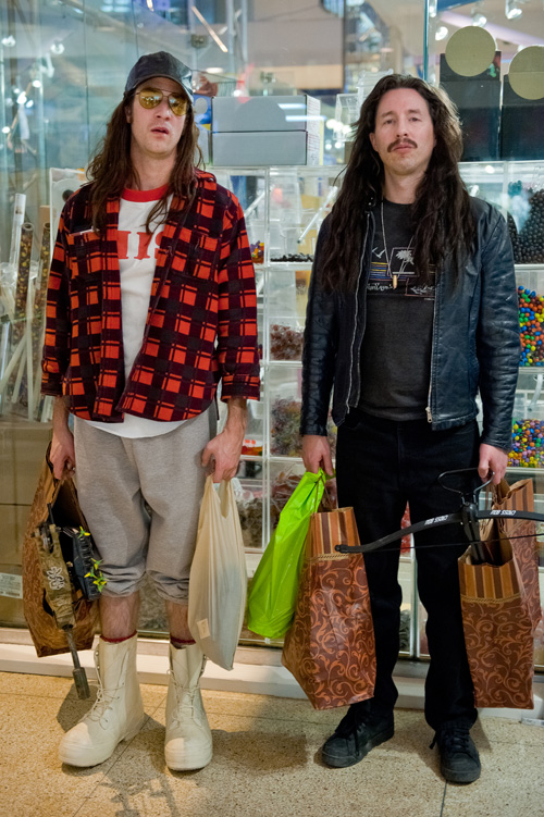 Publicity Still from FUBAR 2